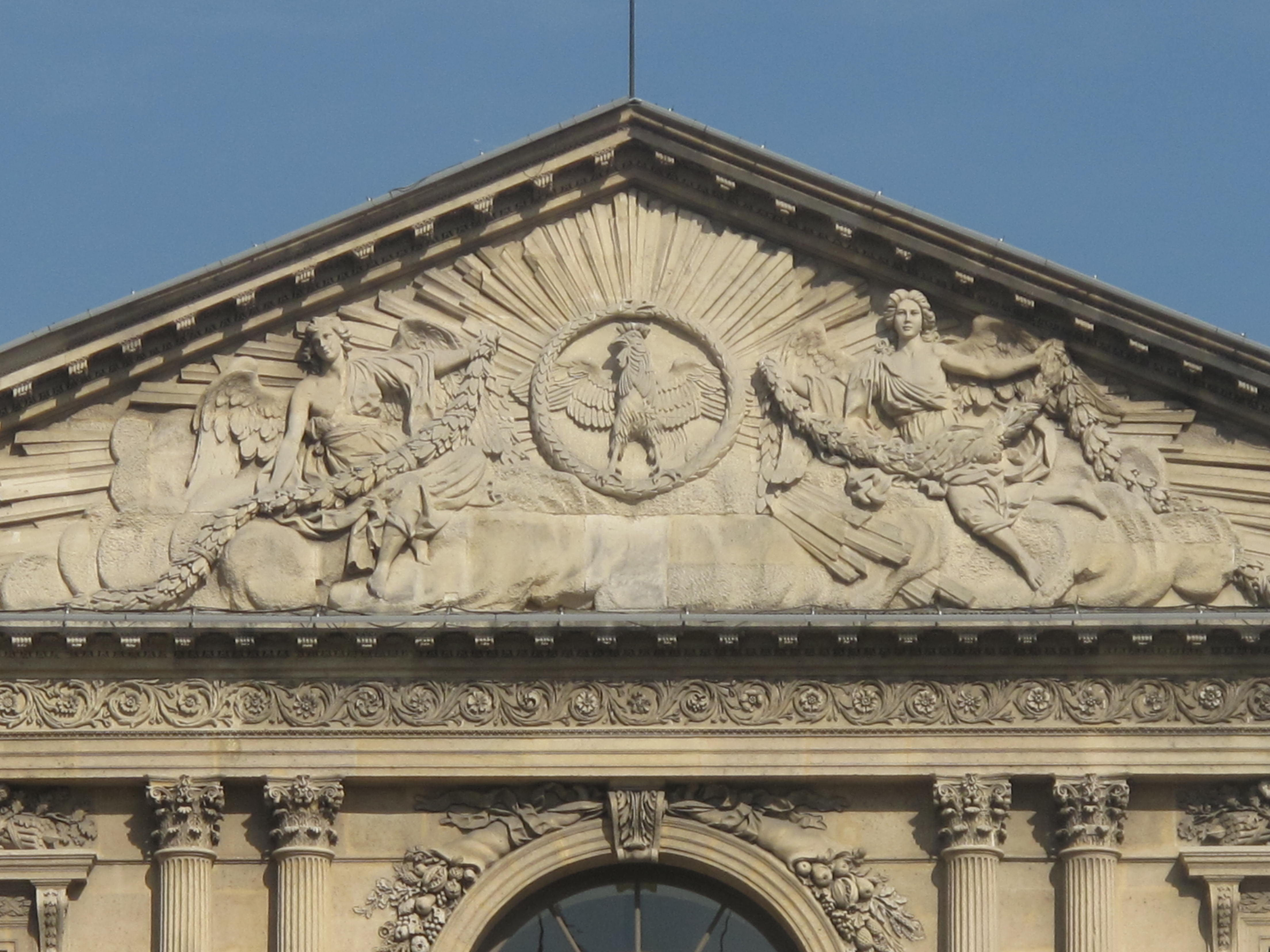 The pediment of the eastern facade of the cour Carrée du Louvre, Paris, France. The cock, symbol of the French Republic, has been put here in place of the royal symbols. Around the cock, an Ouroboros (rounded symbolic snake).